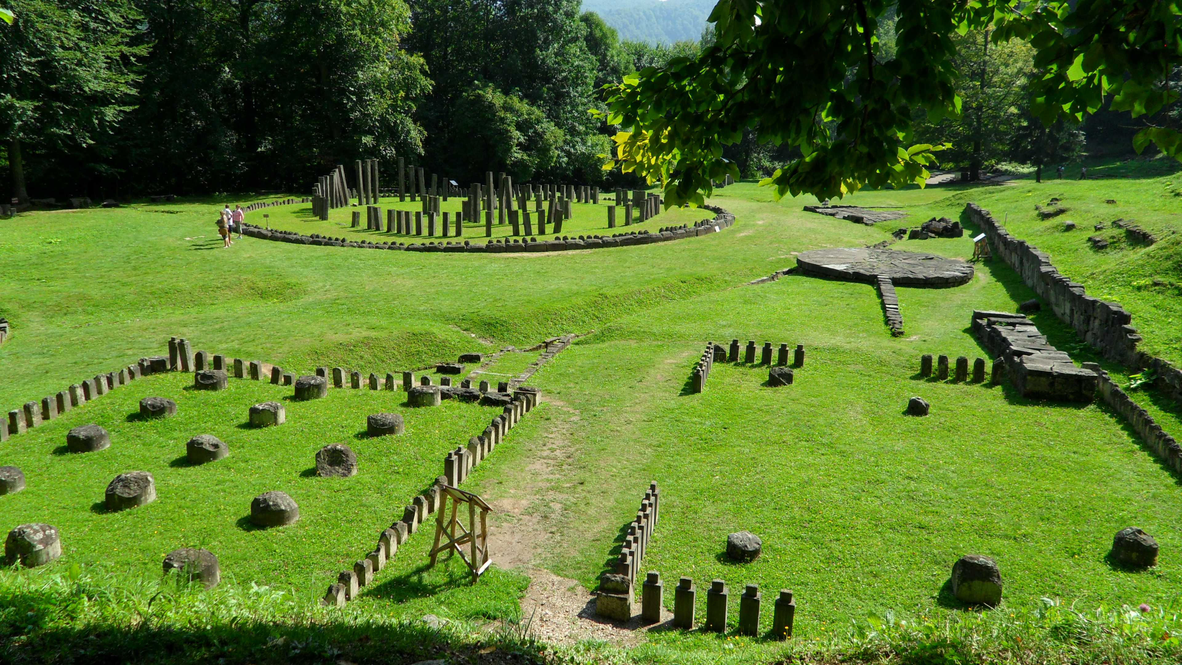 Sarmizegetusa Regia, also Sarmisegetusa, Sarmisegethusa, Sarmisegethuza, Ζαρμιζεγεθούσα (Zarmizegethoúsa) or Ζερμιζεγεθούση (Zermizegethoúsē), was the capital and the most important military, religious and political centre of the Dacians. Erected on top of a 1,200 metre high mountain, the fortress was the core of the strategic defensive system in the Orăştie Mountains (in present-day Romania), comprising six citadels. Sarmizegetusa Regia was the capital of Dacia prior to the wars with the Roman Empire.